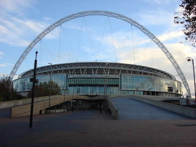 Wembley Stadium With 90,000 seats this stadium has the second largest capacity in Europe (after the Camp Nou), and the largest in the world with every seat under cover. Following its opening, it has often been referred to as the "new Wembley Stadium" to distinguish it from the original stadium. The stadium is also the most expensive stadium ever built.